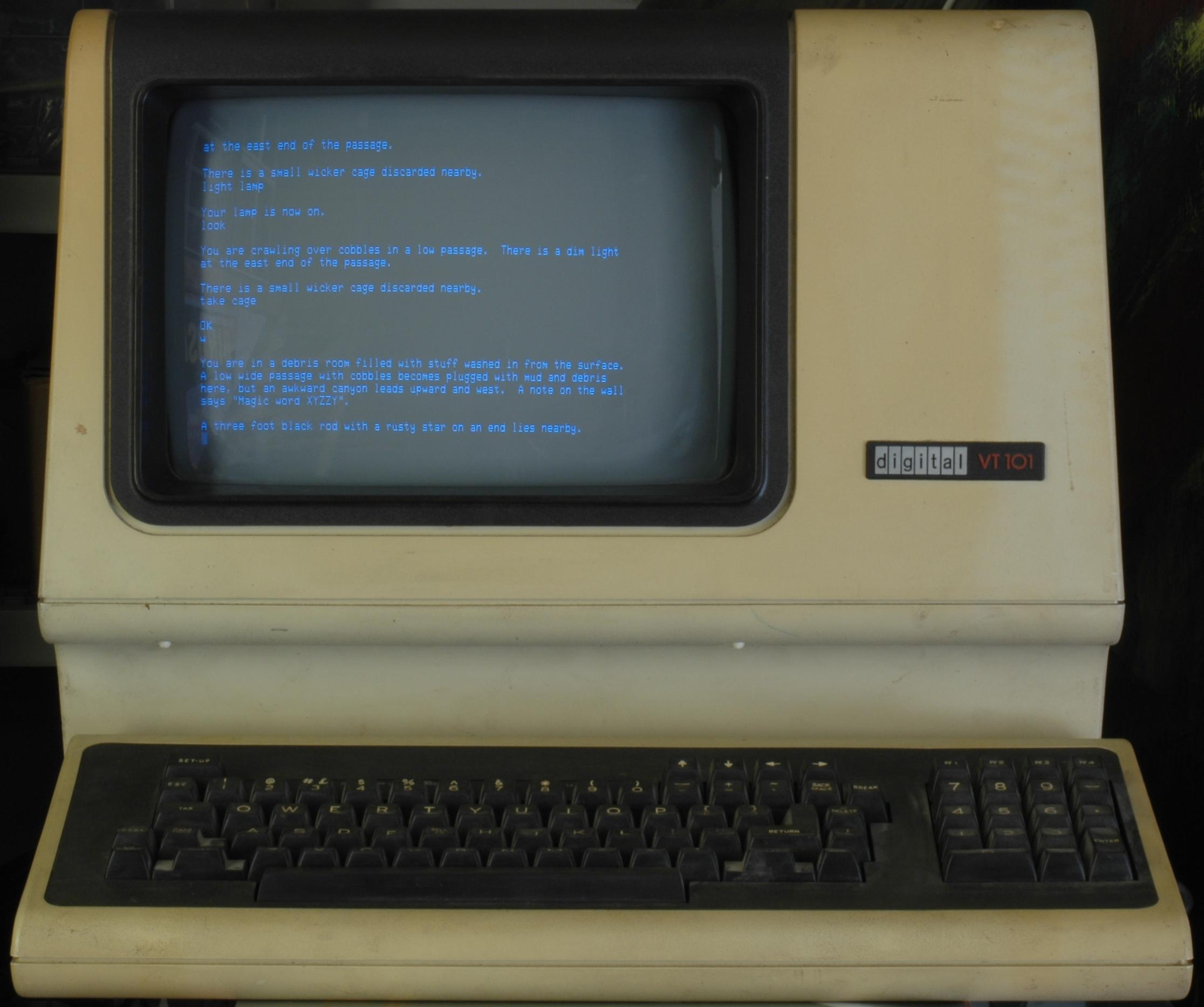 DEC VT100 ASCII terminal. From the collection of the RCS/RI.